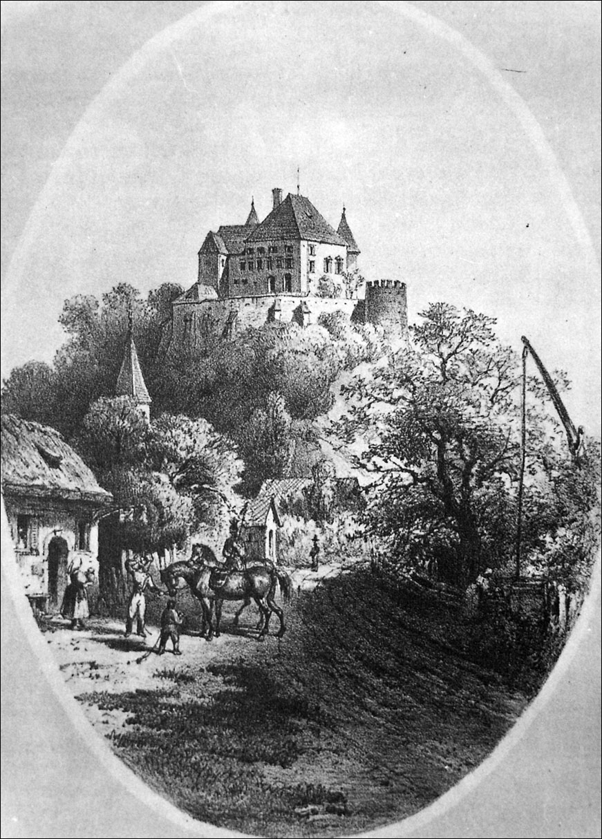 Majšperk Castle